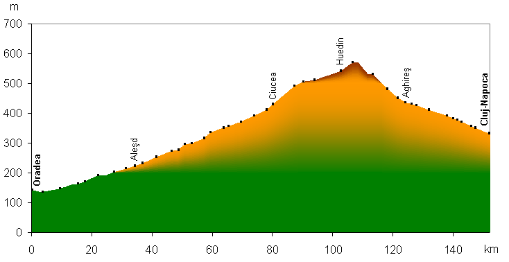 elevation profile of the railway track Oradea-Cluj